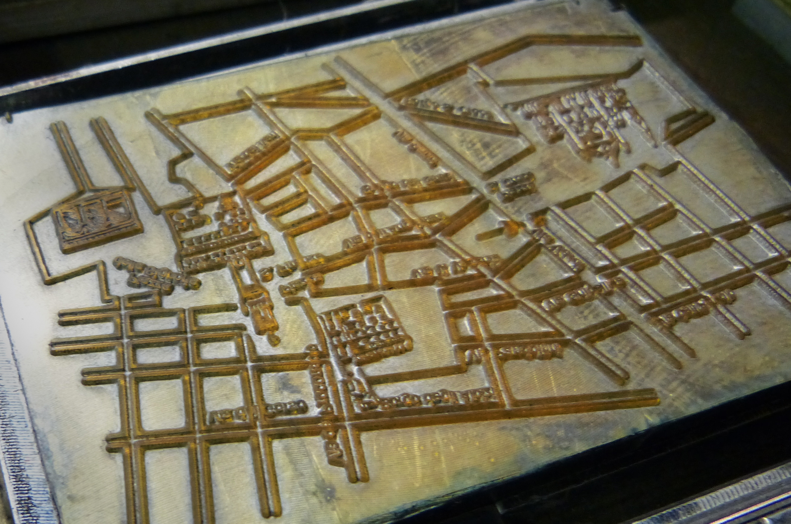 Pictures of modern photopolymer printing plate (plastic) still used for traditional printing press.